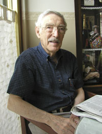 Bruce N. Ames. Photo taken by matteo ames in 2003 and offered under creative commons attribution 2.5 licence